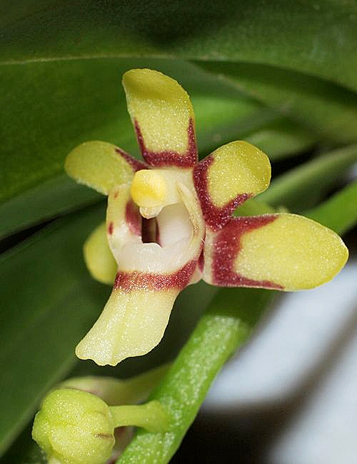 Plant in cultivation.